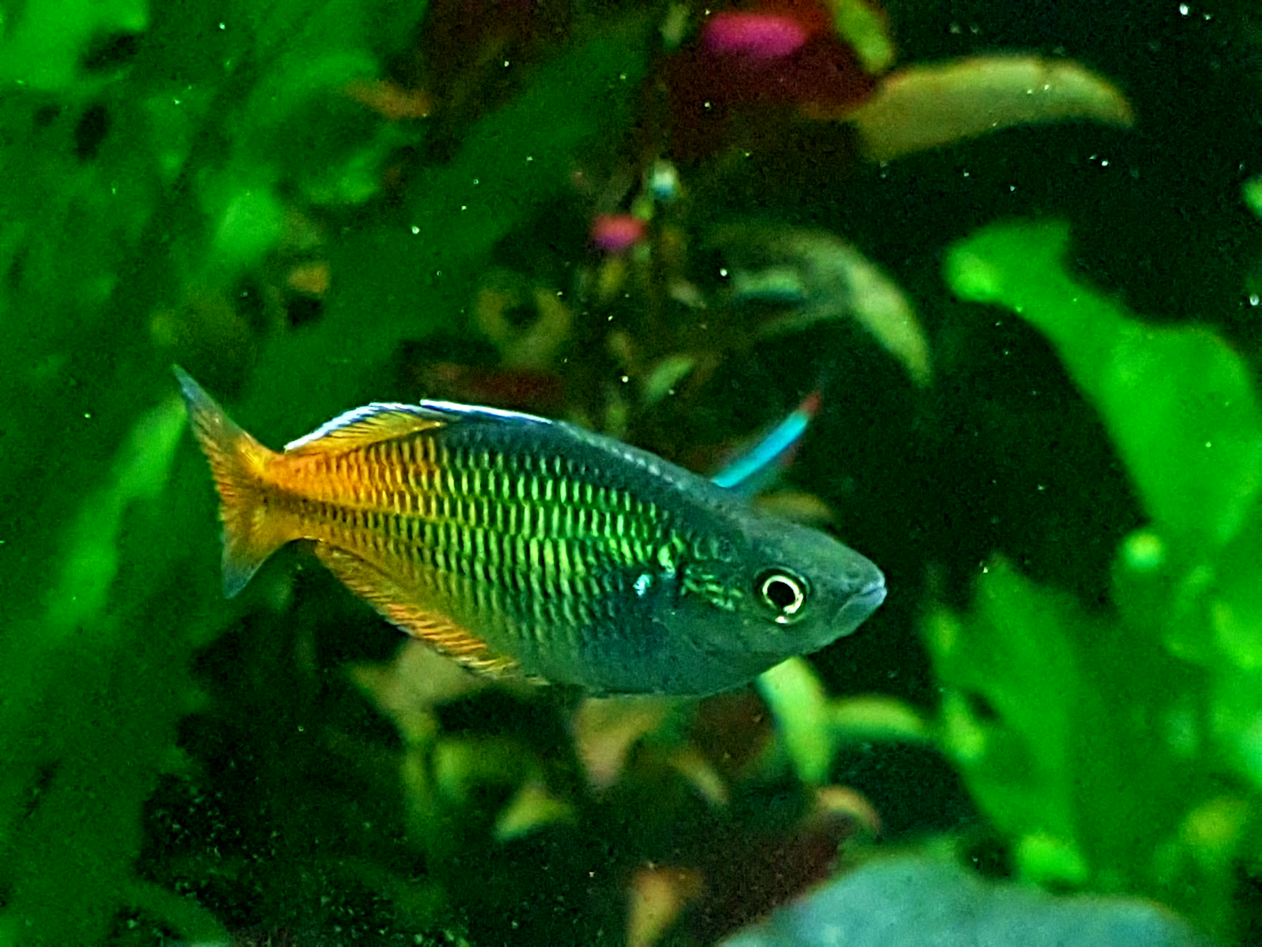 A Bosemani Rainbow in the Aquarium Hobby